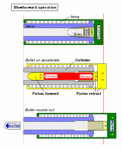 Simplified & comparison diagram of Simple Blowback and Blowforward operation.